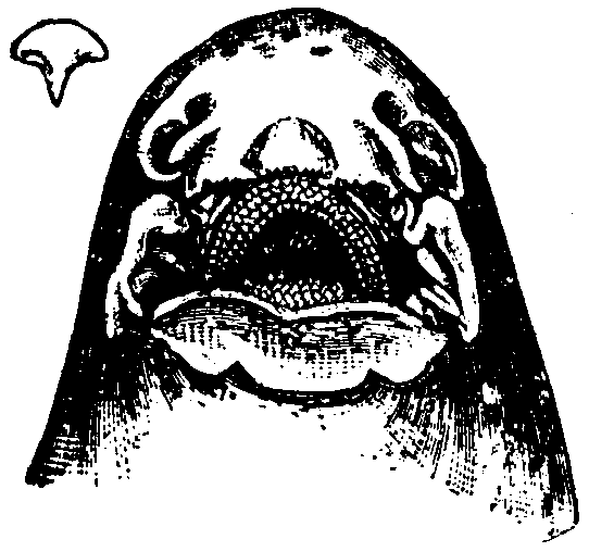 Drawing of confluent nasal and buccal cavities of a shark, Chiloscyllium trispeculare (Syn. Hemiscyllium trispeculare)